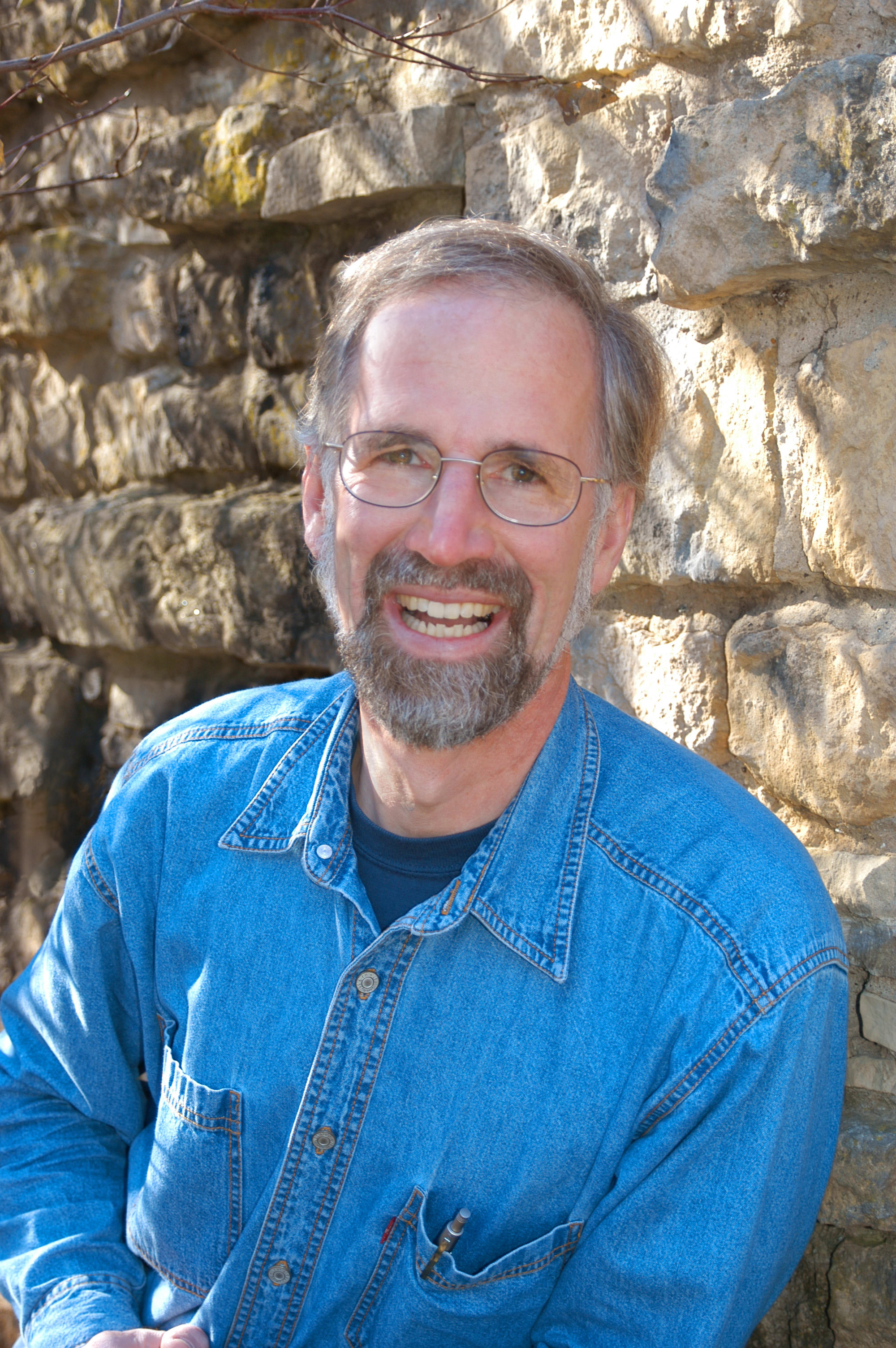 Subject: William Cronon Photographer: Hilary Cronon (daughter) Location: Madison, WI Arboretum Date: 2007